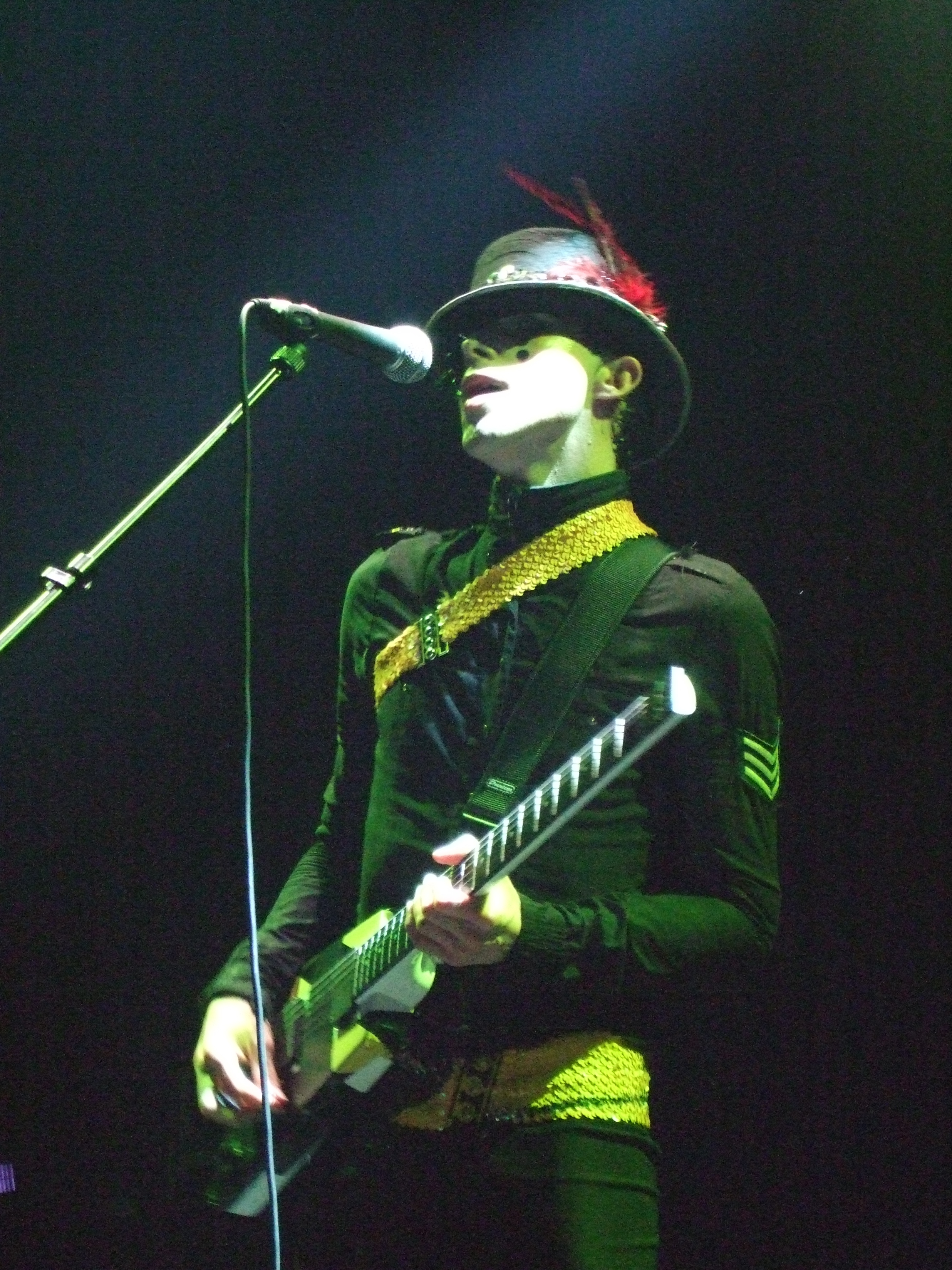 IAMX playing live in the Orpheum in Graz on 2007-10-09